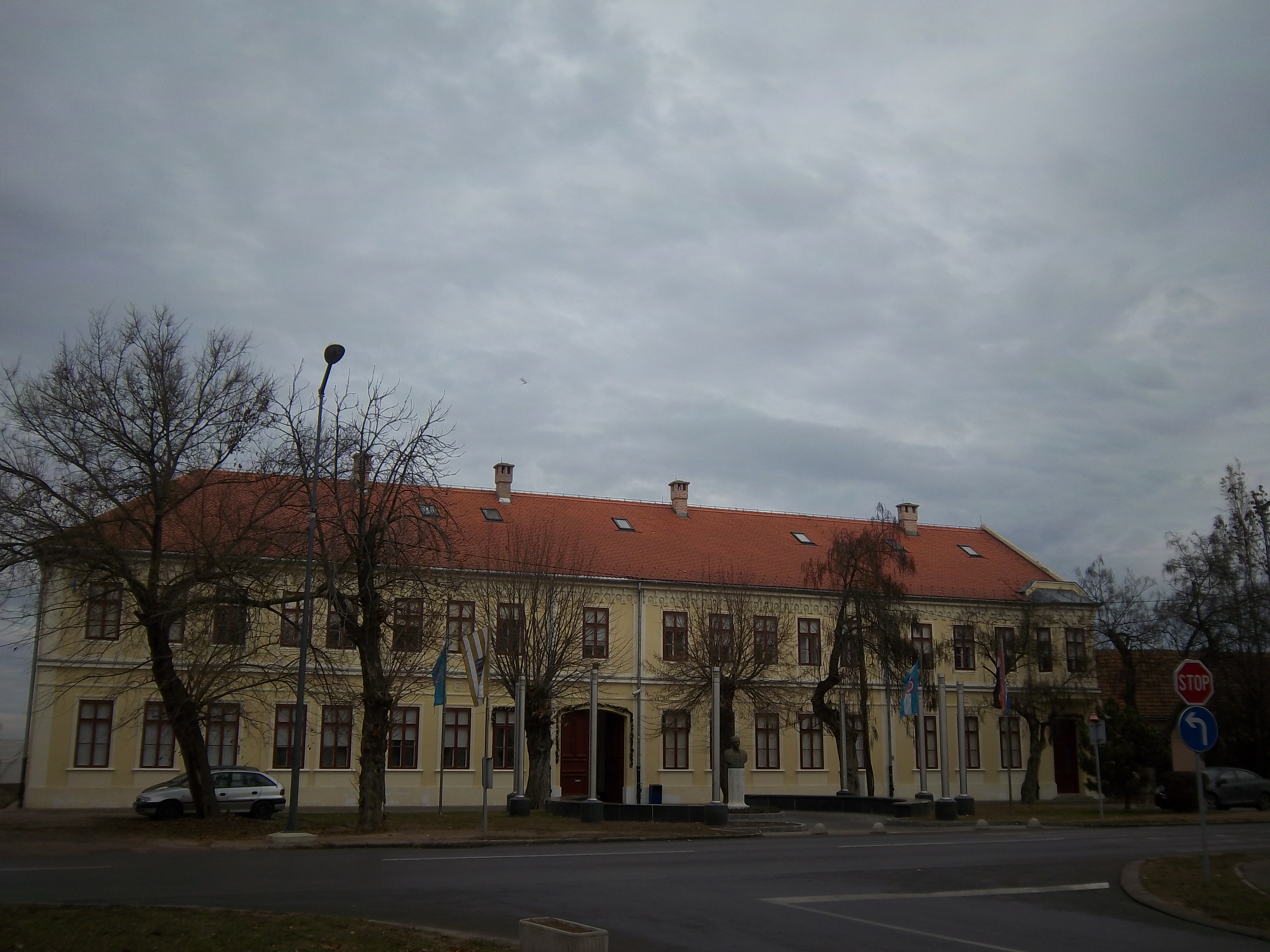 Lavoslav Ružička Polytechnic in Vukovar, Croatia